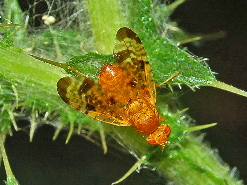 Xyphosia miliaria. Male. Portofino Mount, Genova, Italy